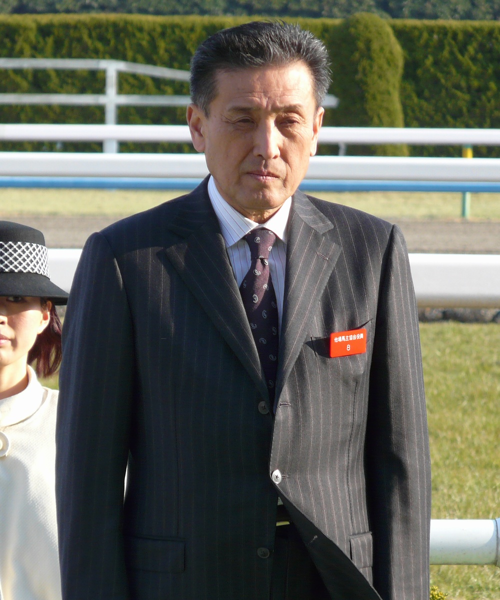 Katsumi-Yoshida20110213